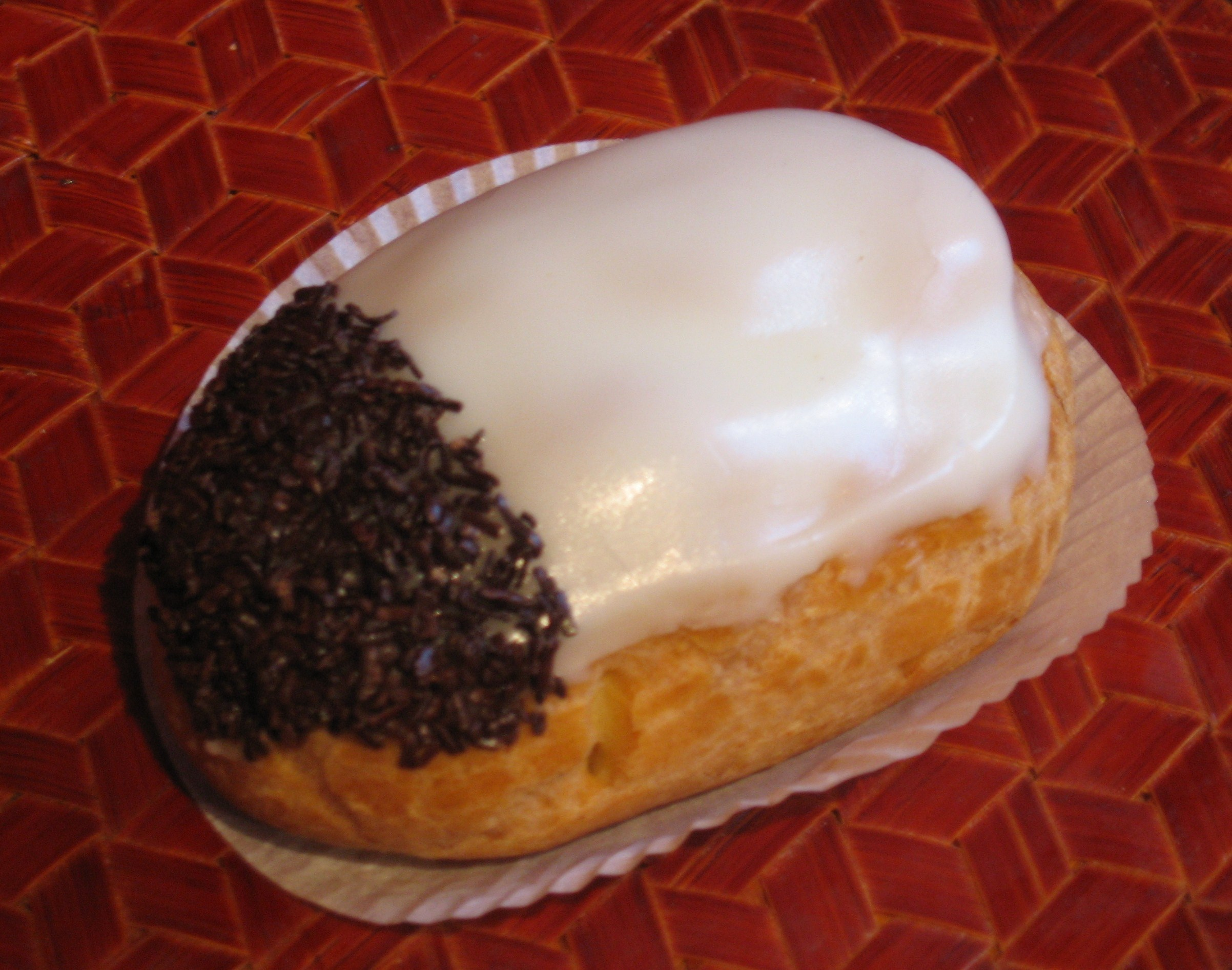 Gland - pastry